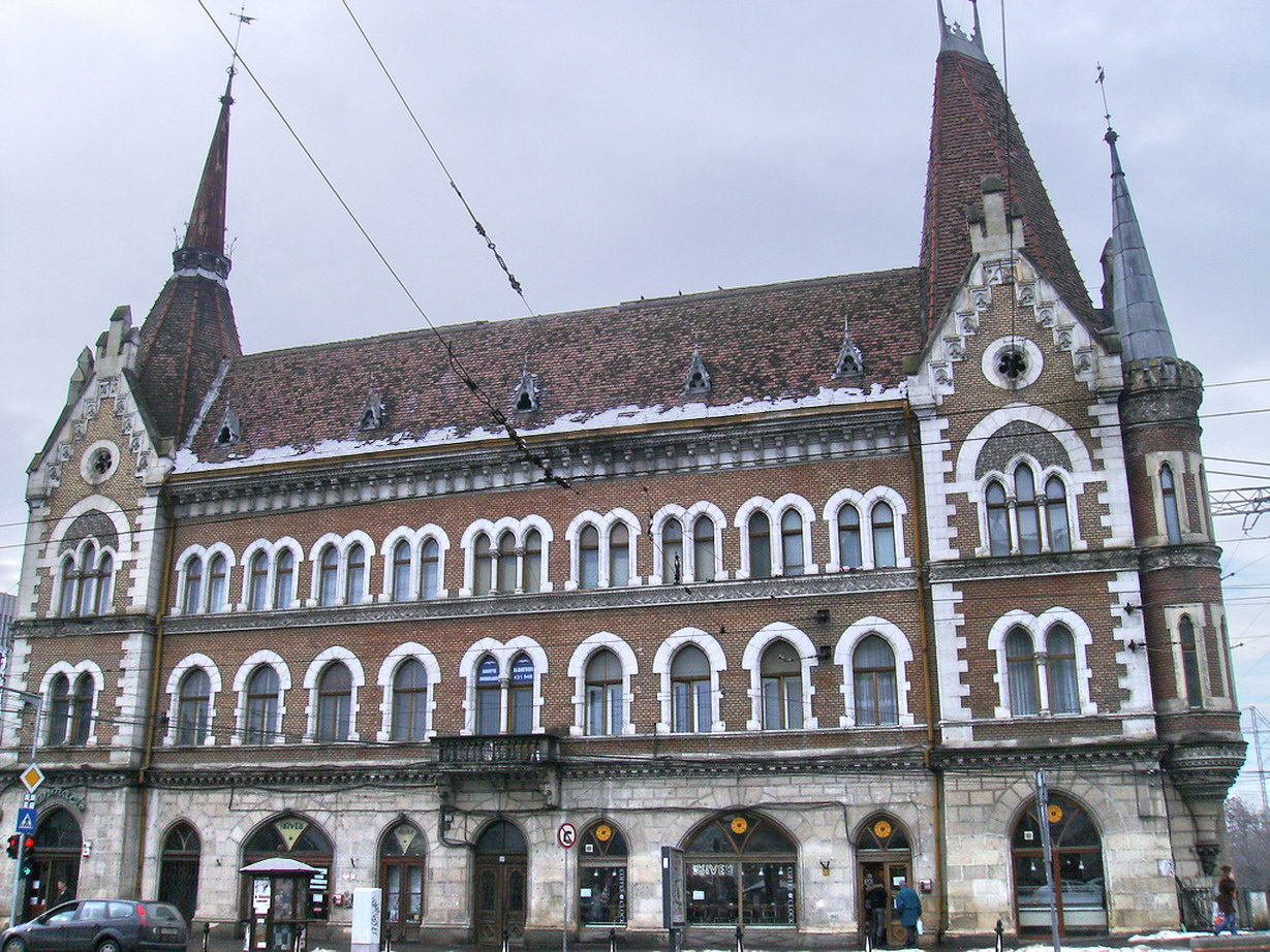 Cluj-Napoca, Széki Palace